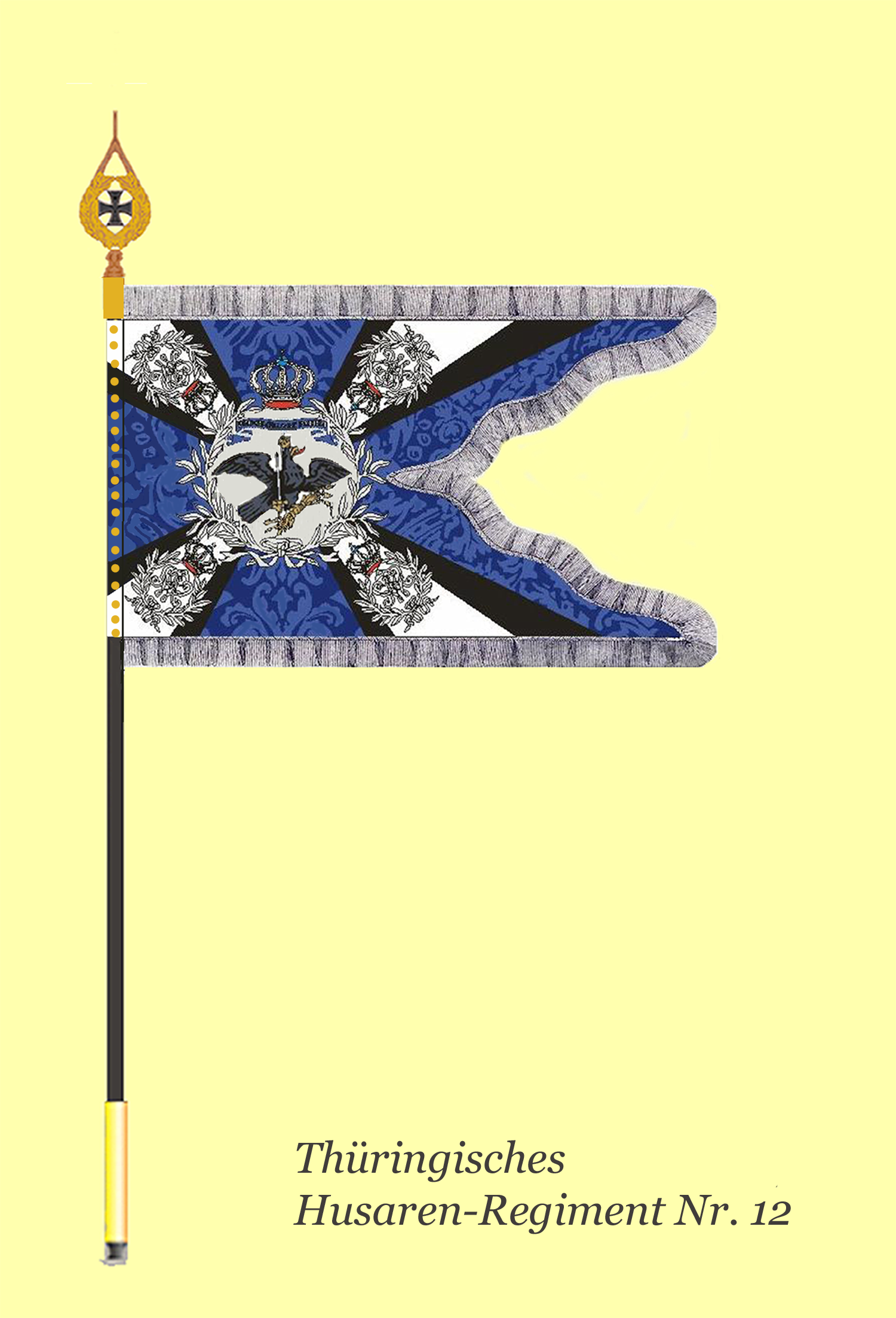 Colors of the royal prussian 12th Regiment of Hussars